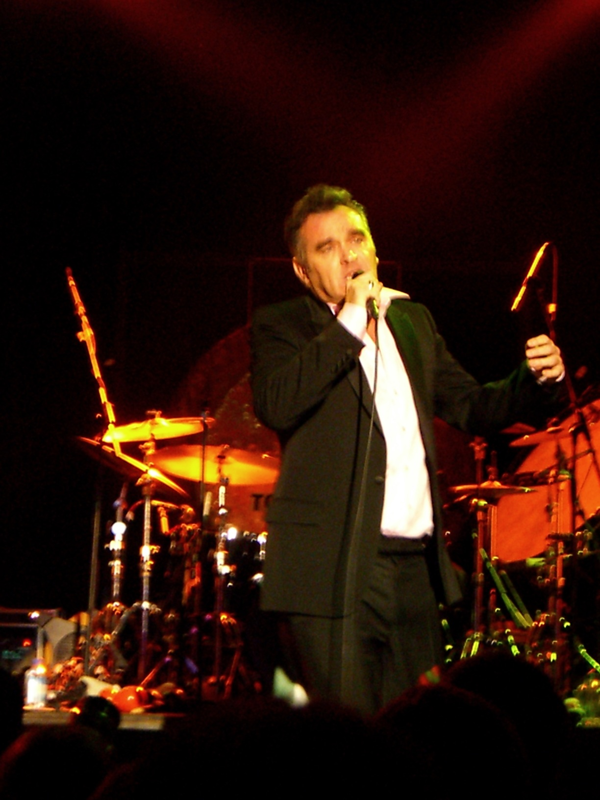 Morrissey. Live at SXSW, Austin, Texas, USA